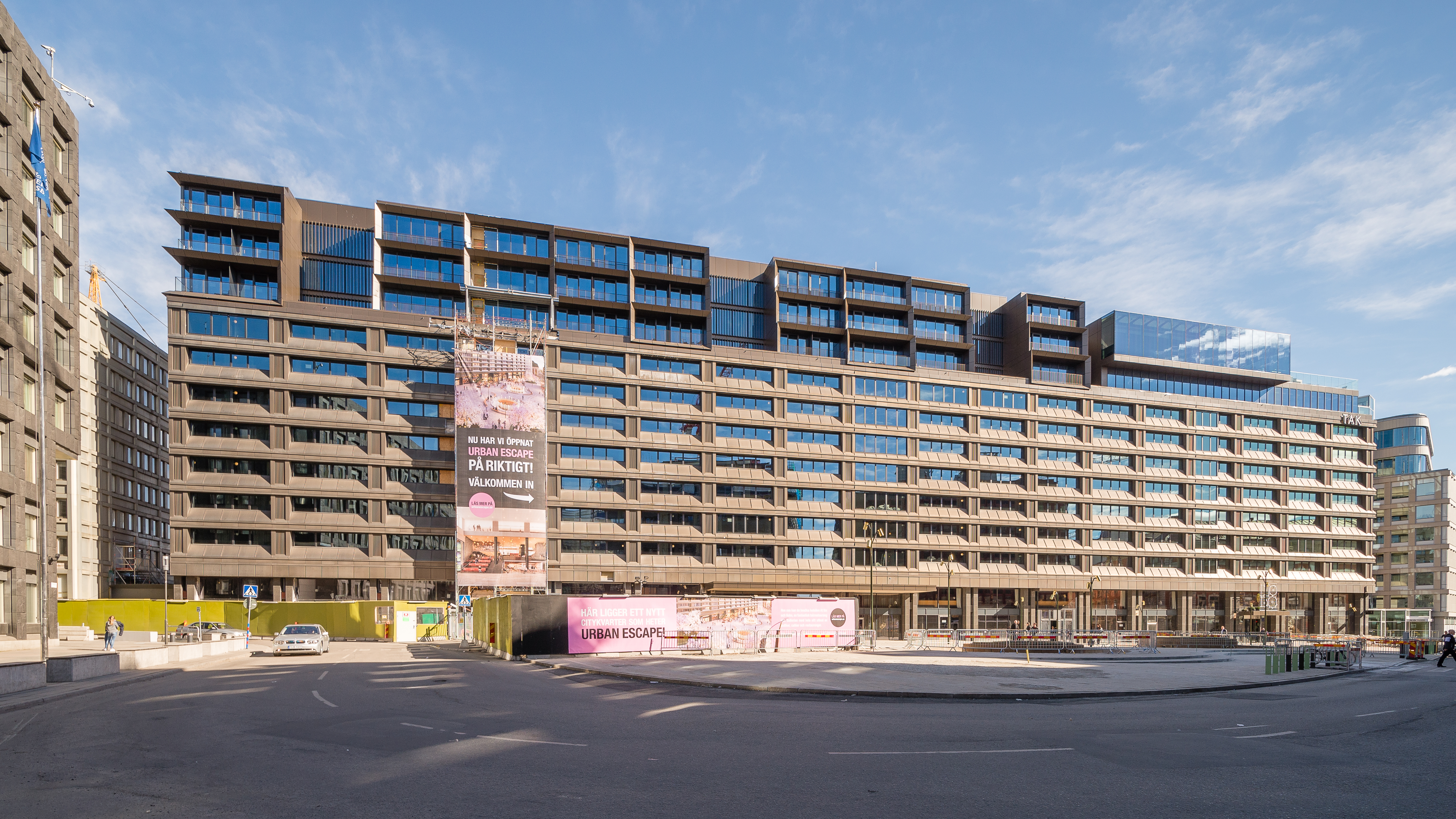 Trollhättan 33.